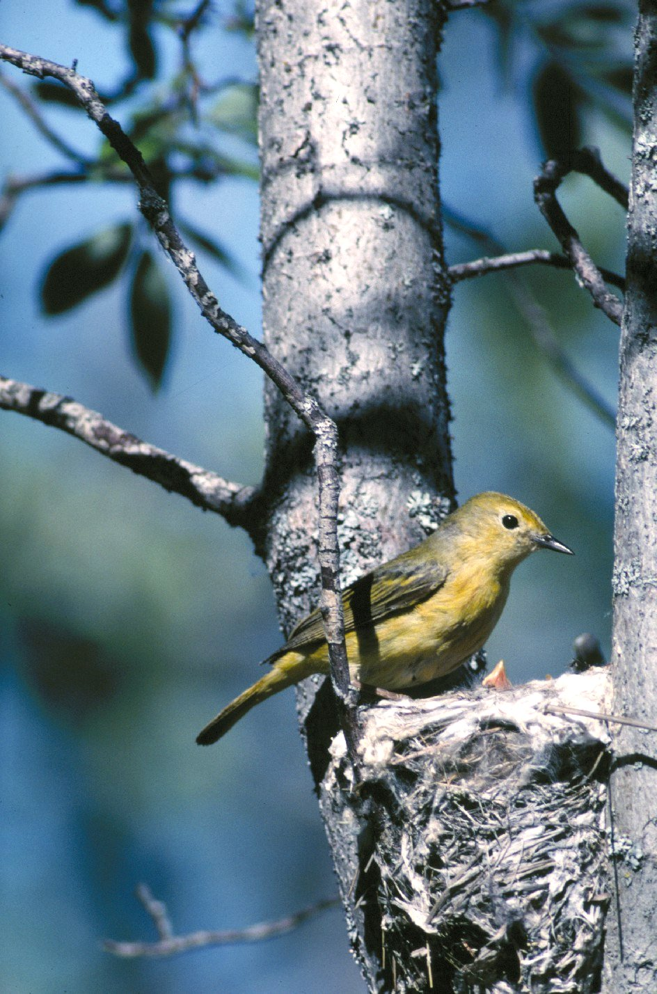 Yellow Warbler Dendroica aestiva (syn. D. petechia aestiva) attends to the nest